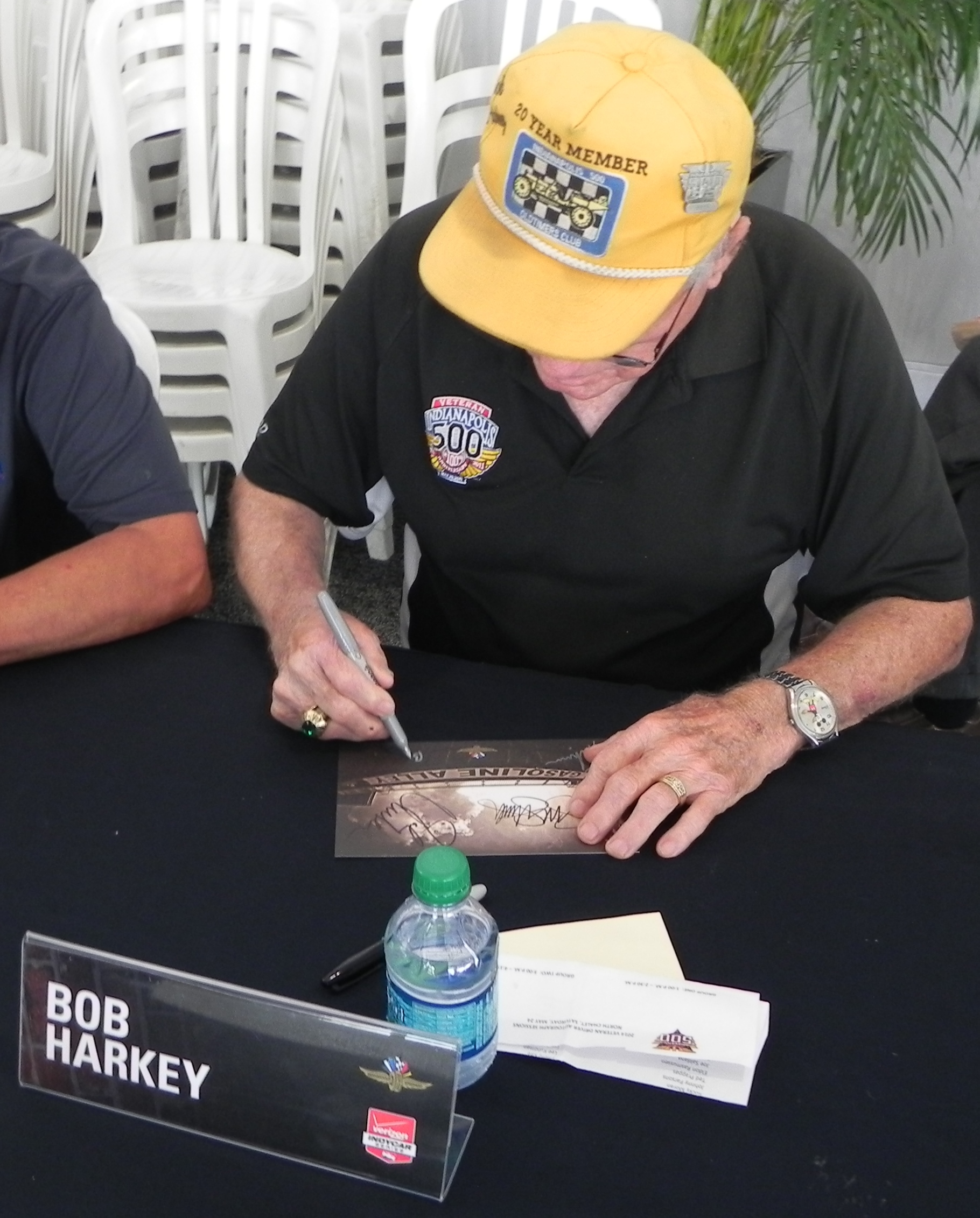 Indy500 driver Bob Harkey at the 2014 Indianapolis 500.